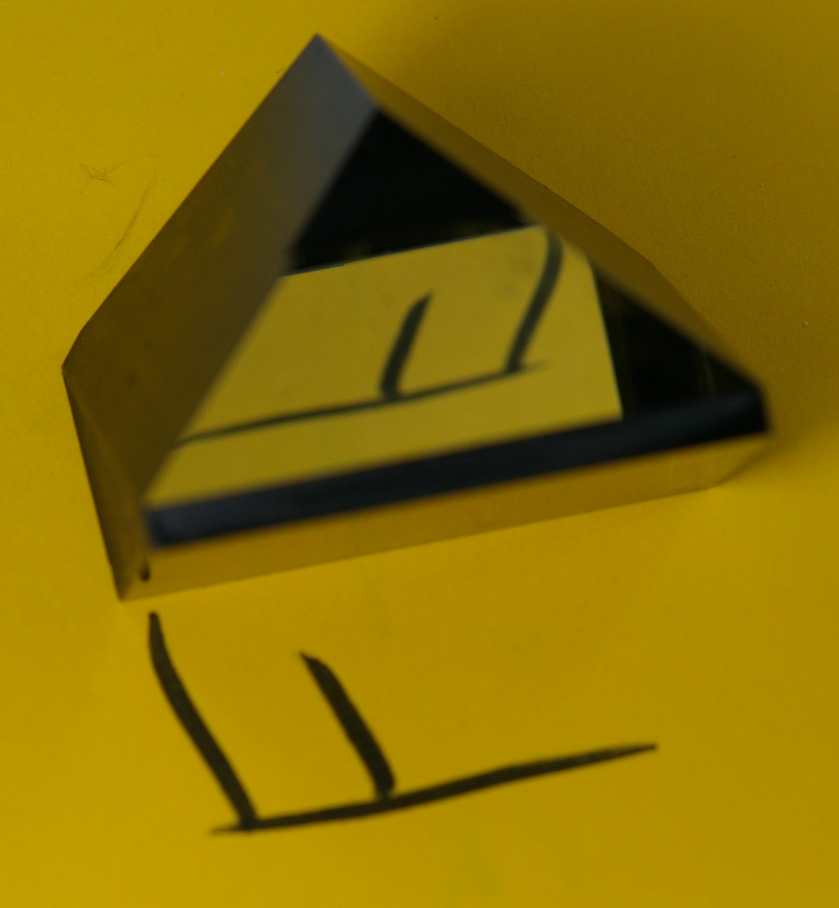 A roof pentaprism from a SLR, showing the left-right reversing. This is looking into the eyepiece plane, and the part of the pentaprism that is normally above the focus screen is visible as the bottom.